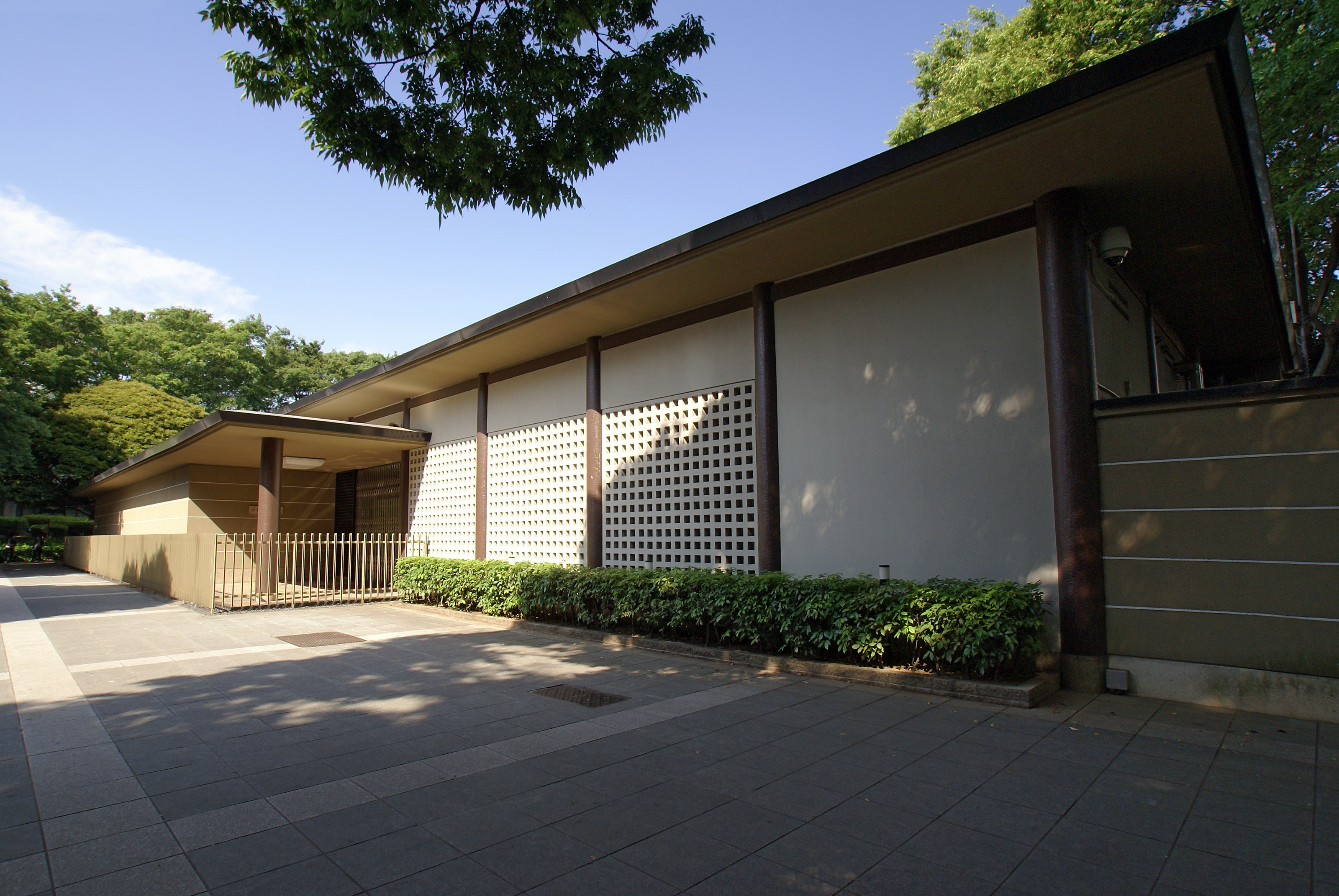 The Japan Art Academy, Taito-ku, Tokyo, Japan